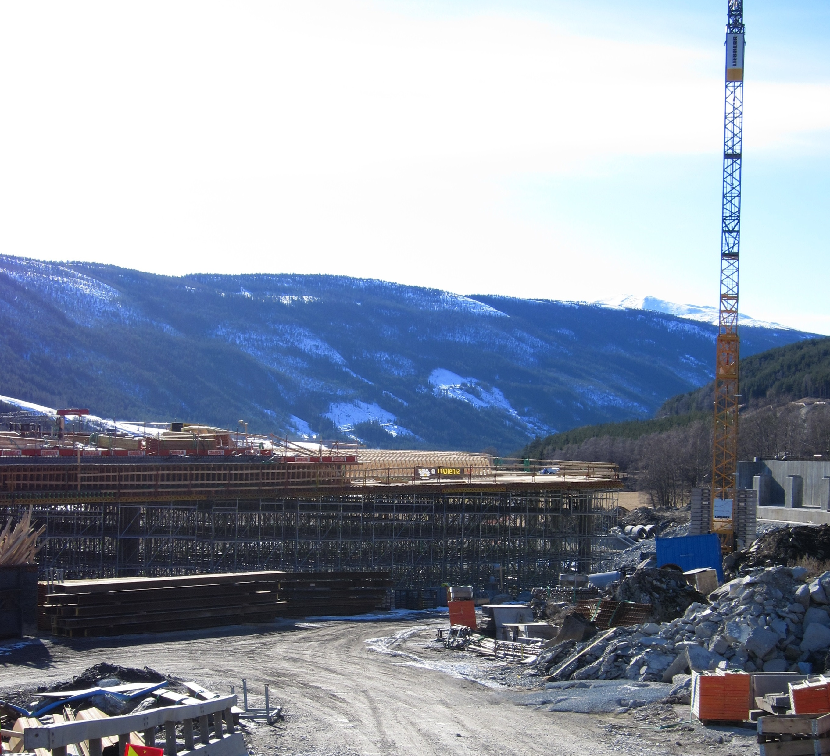 Kjørem bridge on E6 at Kvam, Gudbrandsdalen, Under construction in 2015